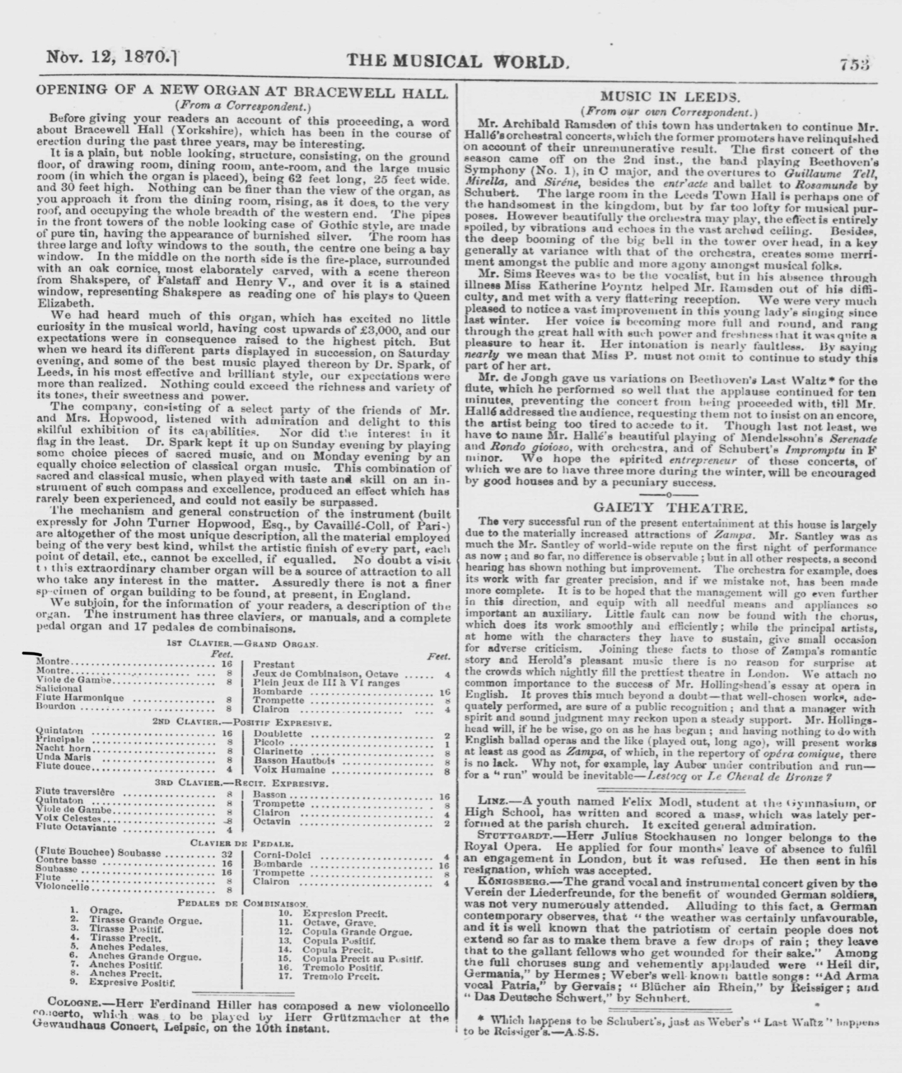 Historic newspaper article with details of a new organ at Bracewell Hall